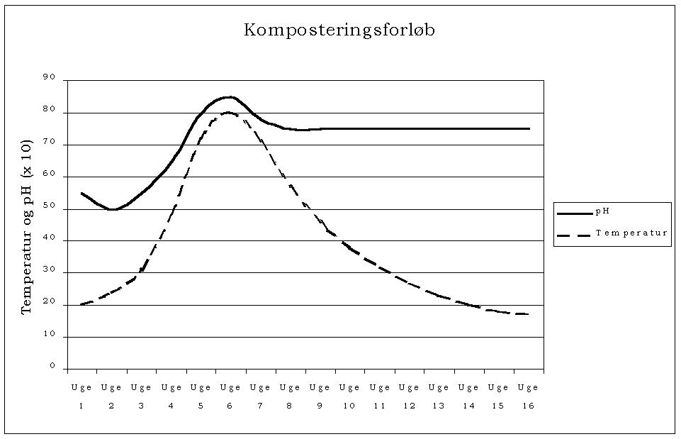 Graph of compost cycle